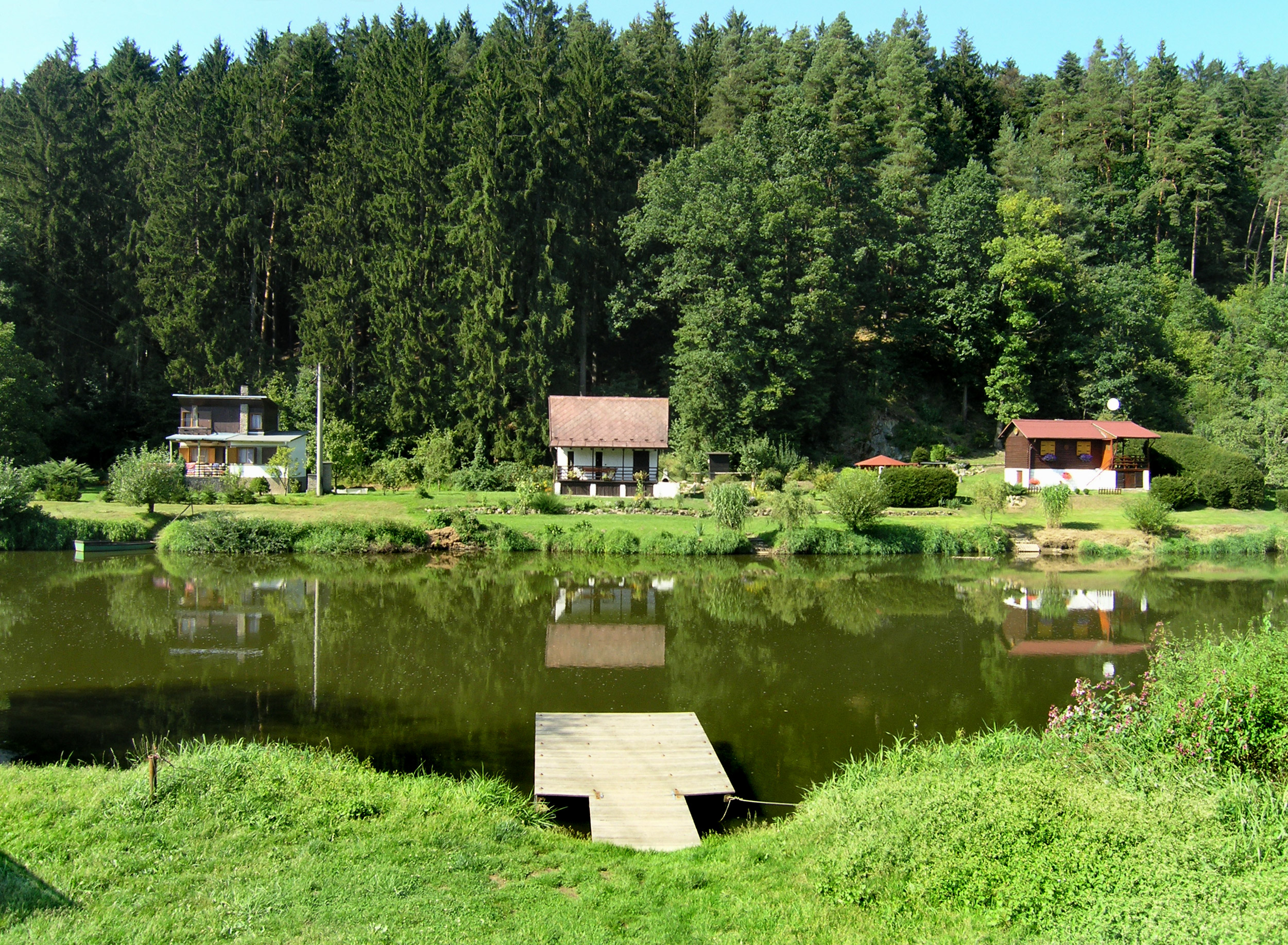 Lužnice River by Bečice village, Czech Republic